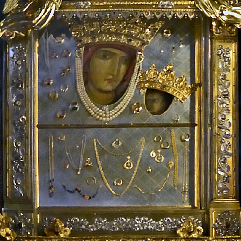 The icon of the Madonna di San Luca, Bologna